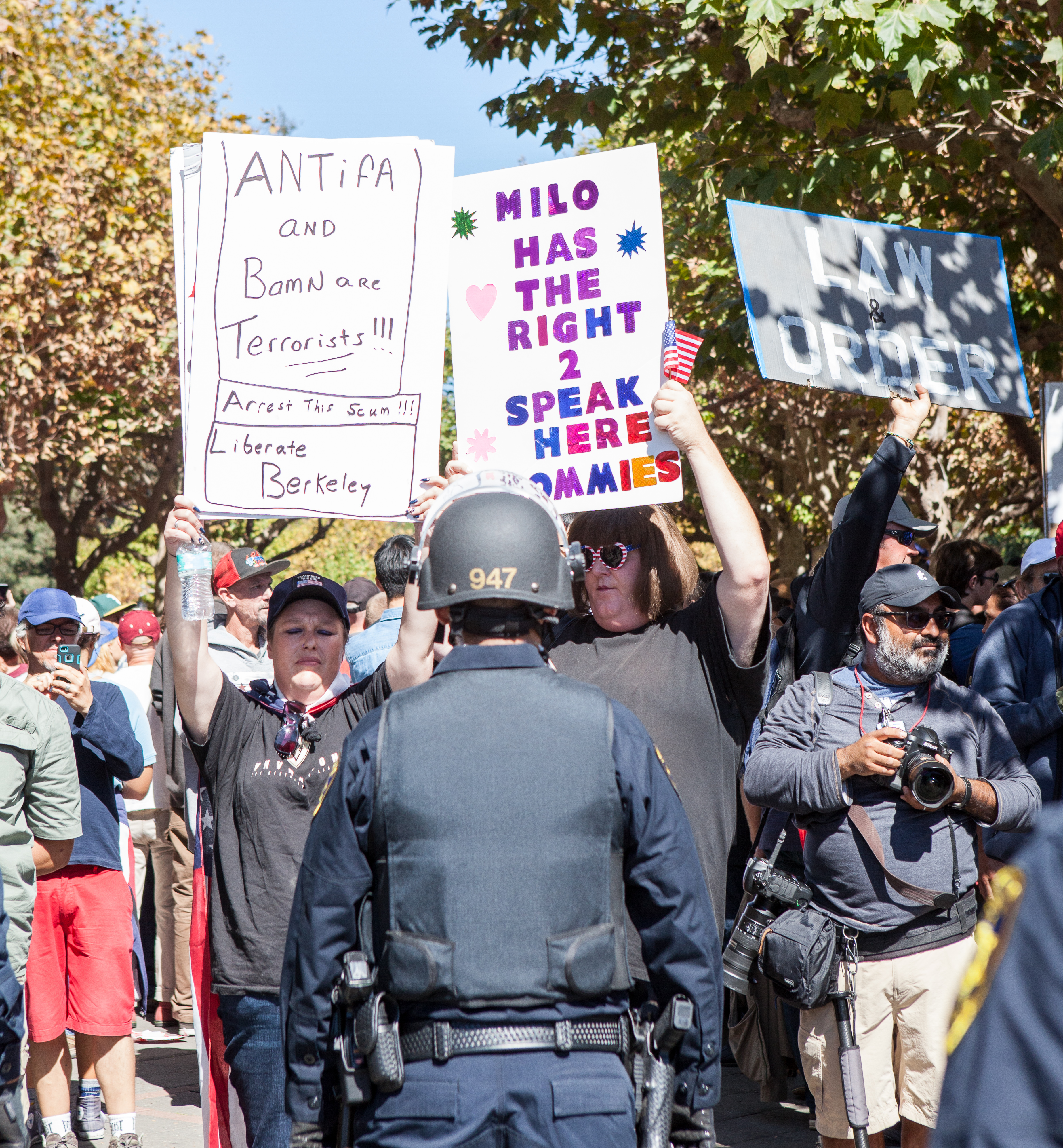 Donald Trump supporters hold signs reading "Antifa and Bamn are Terrorists!!!" and "Milo Has The Right 2 Speak Here Commies", on Sproul Plaza at UC Berkeley.